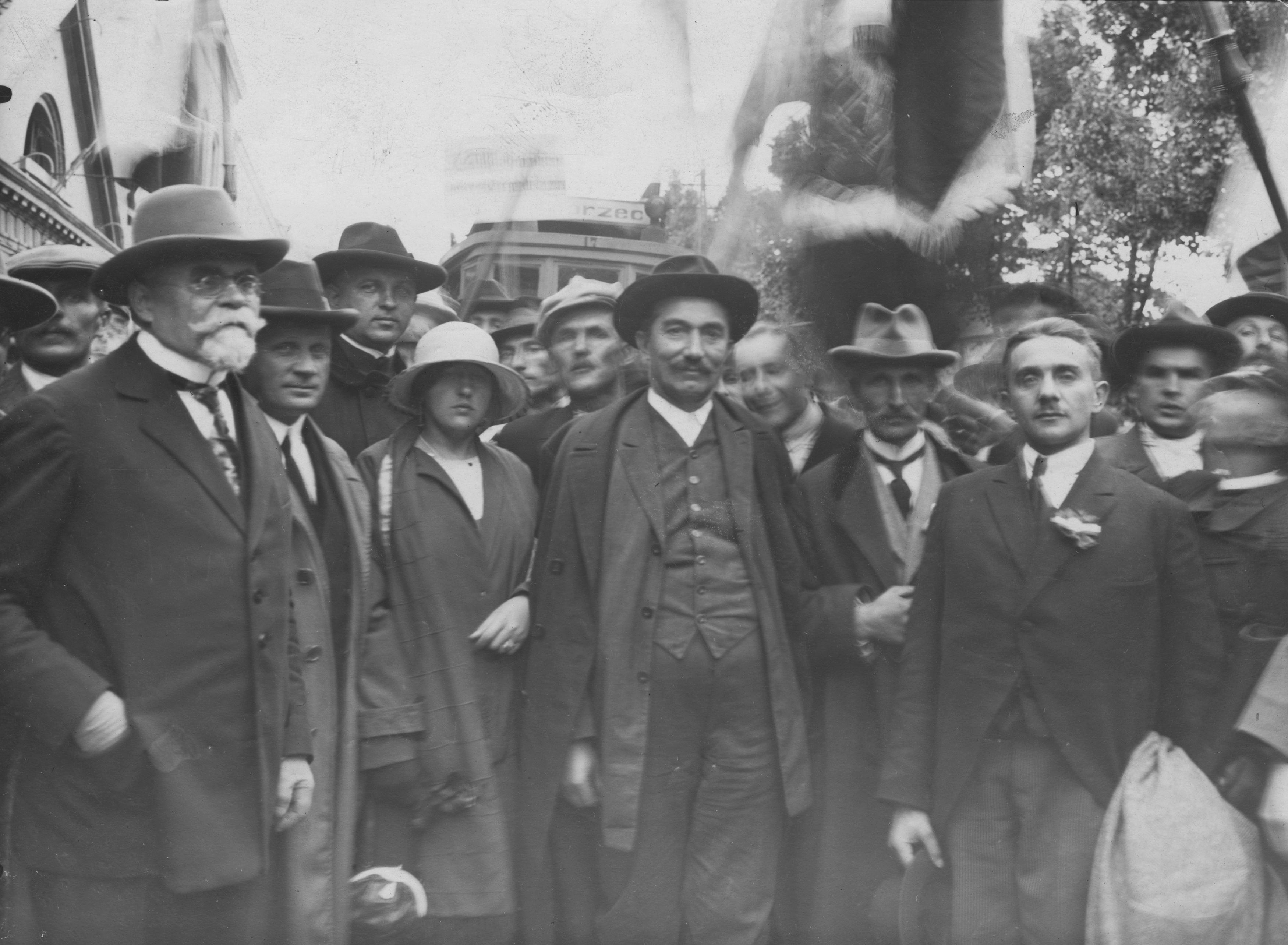 Wincenty Witos in Grudziądz - during the PSL Piast party congress (Wiktor Kulerski and Z. Wasilewski also visible).